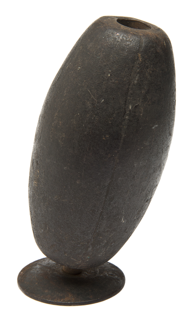 Ketchum hand grenade used during the Civil War. The grenade consists of a plunger and casing, which would have held the main charge. A wooden tailpiece with fins (not present) was designed to stabilize flight when thrown. Ketchum grenades were largely inefficient because they had to land directly on their nose in order to detonate. Donated by the wife of Captain Mortimer M. Wheeler of the 5th Iowa Cavalry, Company E.